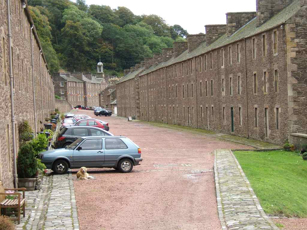 New Lanark World Heritage village in Scotland. Rosedale Street with Long Row to left, Double Row to near right and Wee Row to middle right. * Source: self made * Author: R Pollack, 18th August 2005